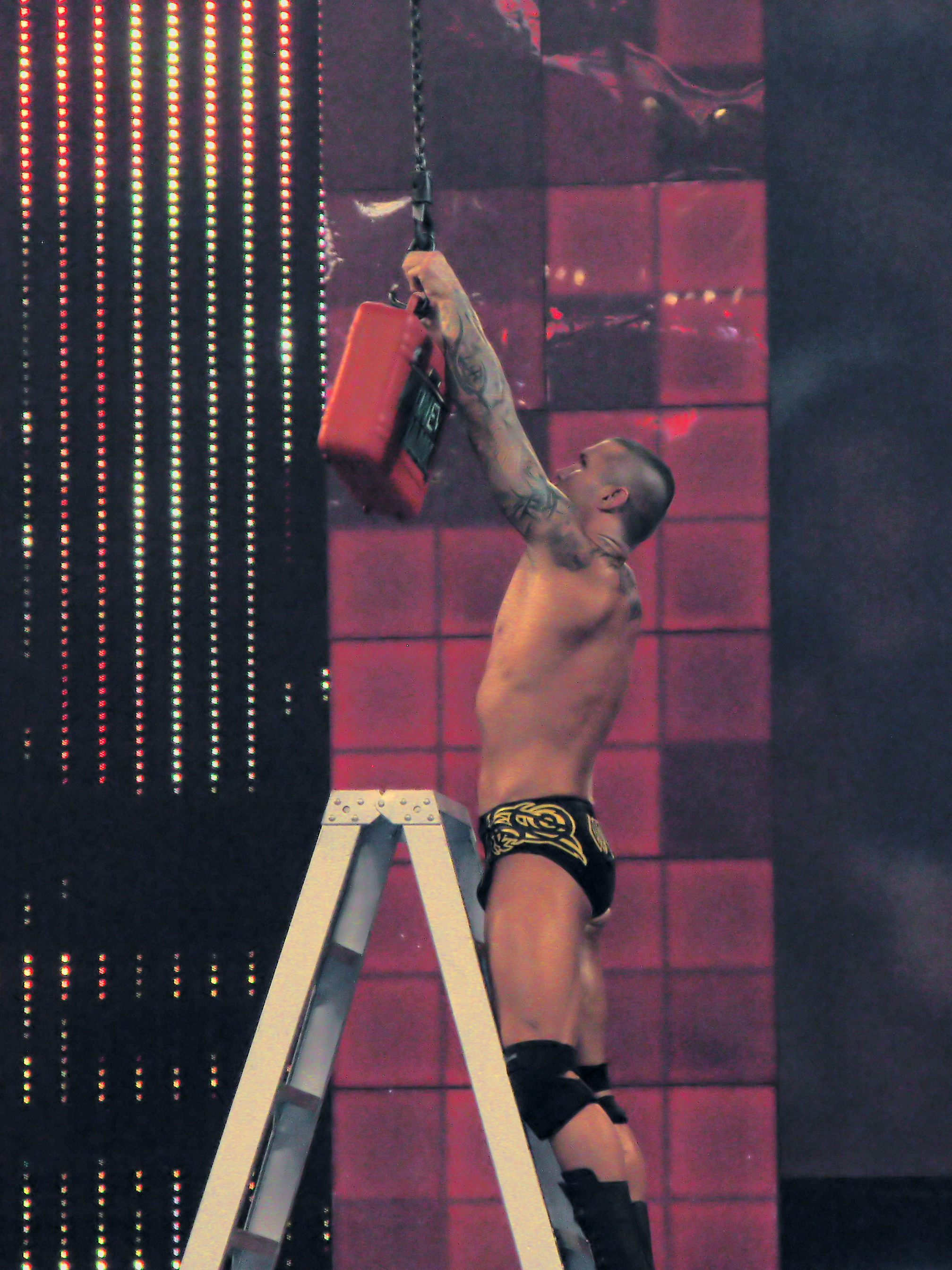 Randy Orton with the Money in the Bank of RAW